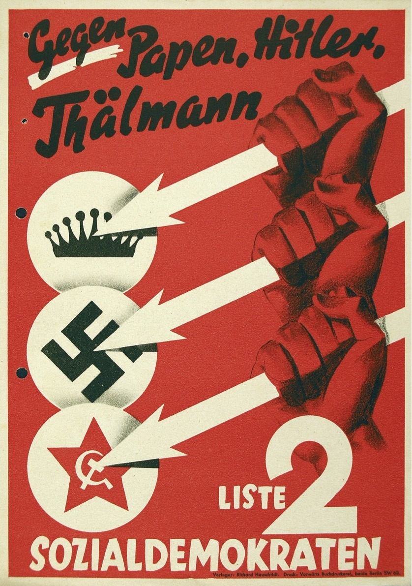 Election poster of the Social Democratic Party of Germany, 1932, with Three Arrows symbol representing resistance against reactionary conservatism, Nazism and Communism, with the slogan "Gegen [Against] Papen, Hitler, Thälmann."